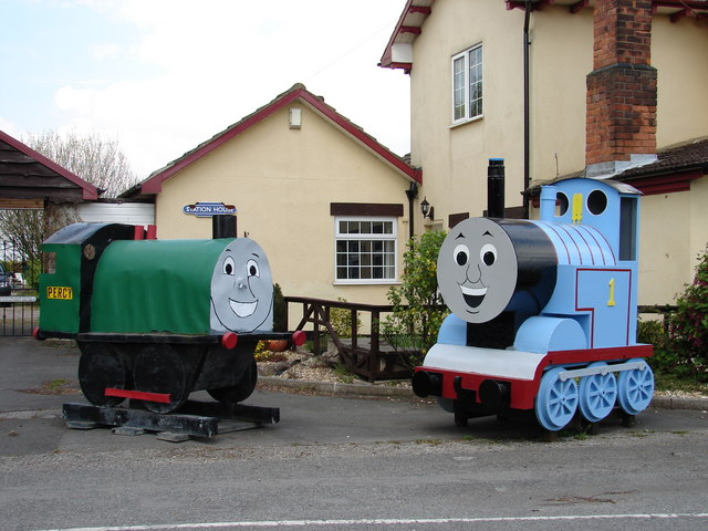 Thomas and Percy